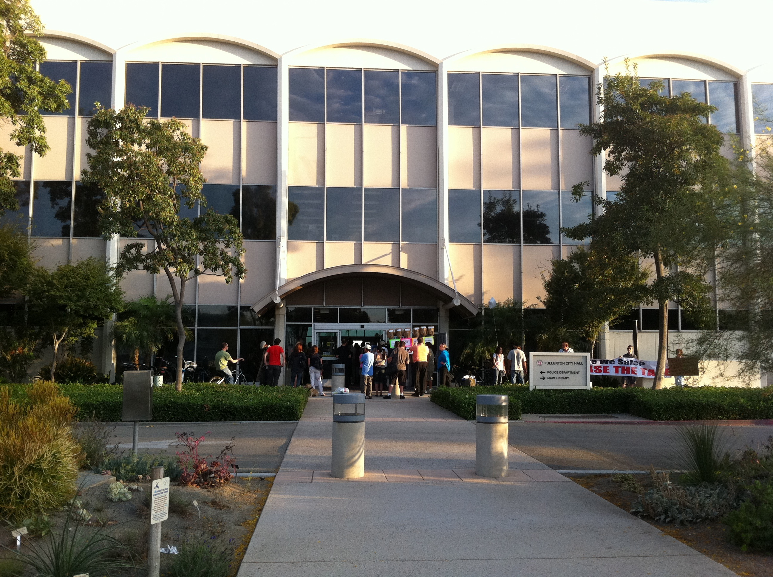 Fullerton, CA City Hall north entrance